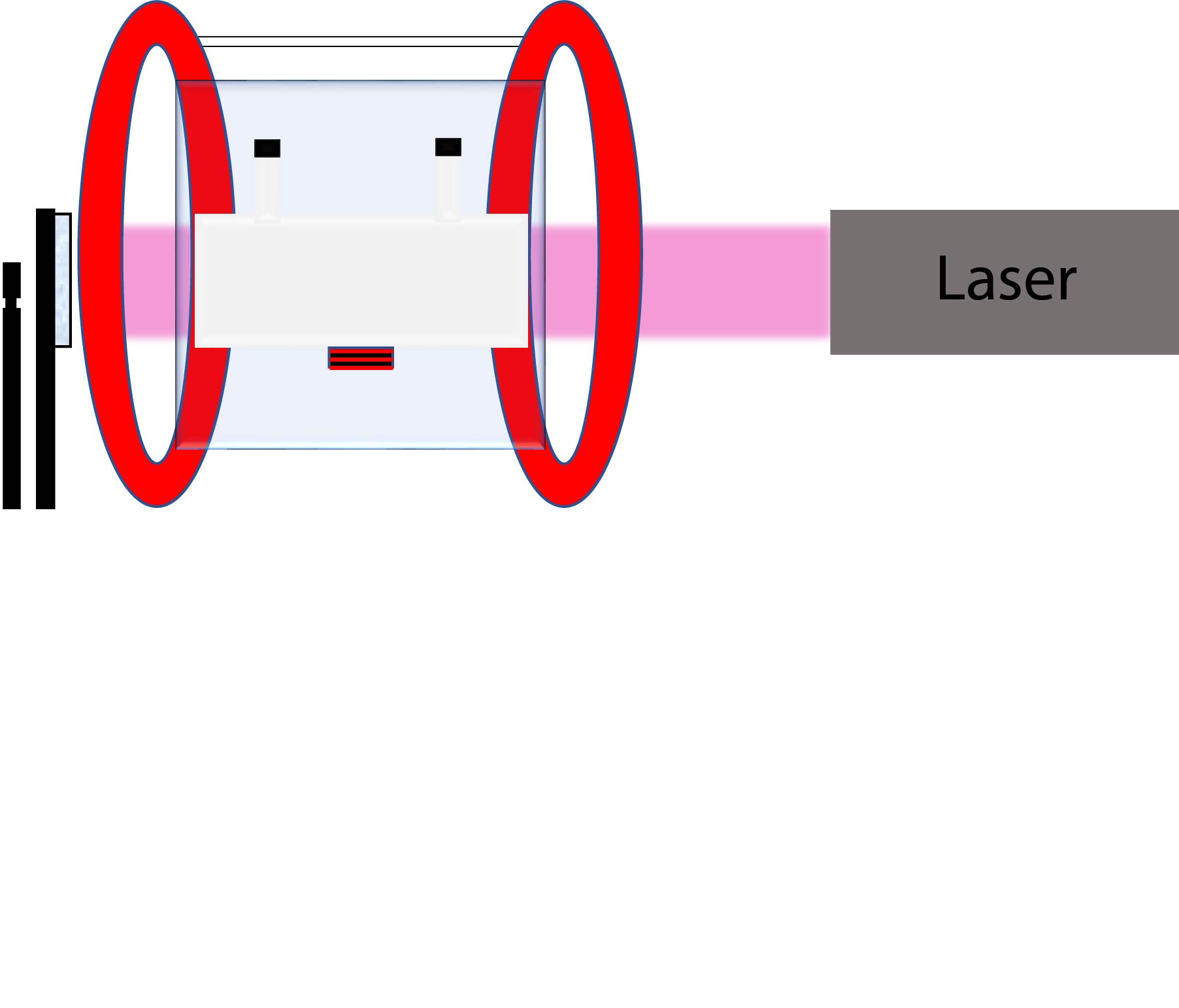 Experimental setup of SEOP, including a laser shining light through an optical cell with a surface NMR coil, which is placed in an oven and centered in a helmholtz coil pair, a retroreflective mirror, and an IR iris.